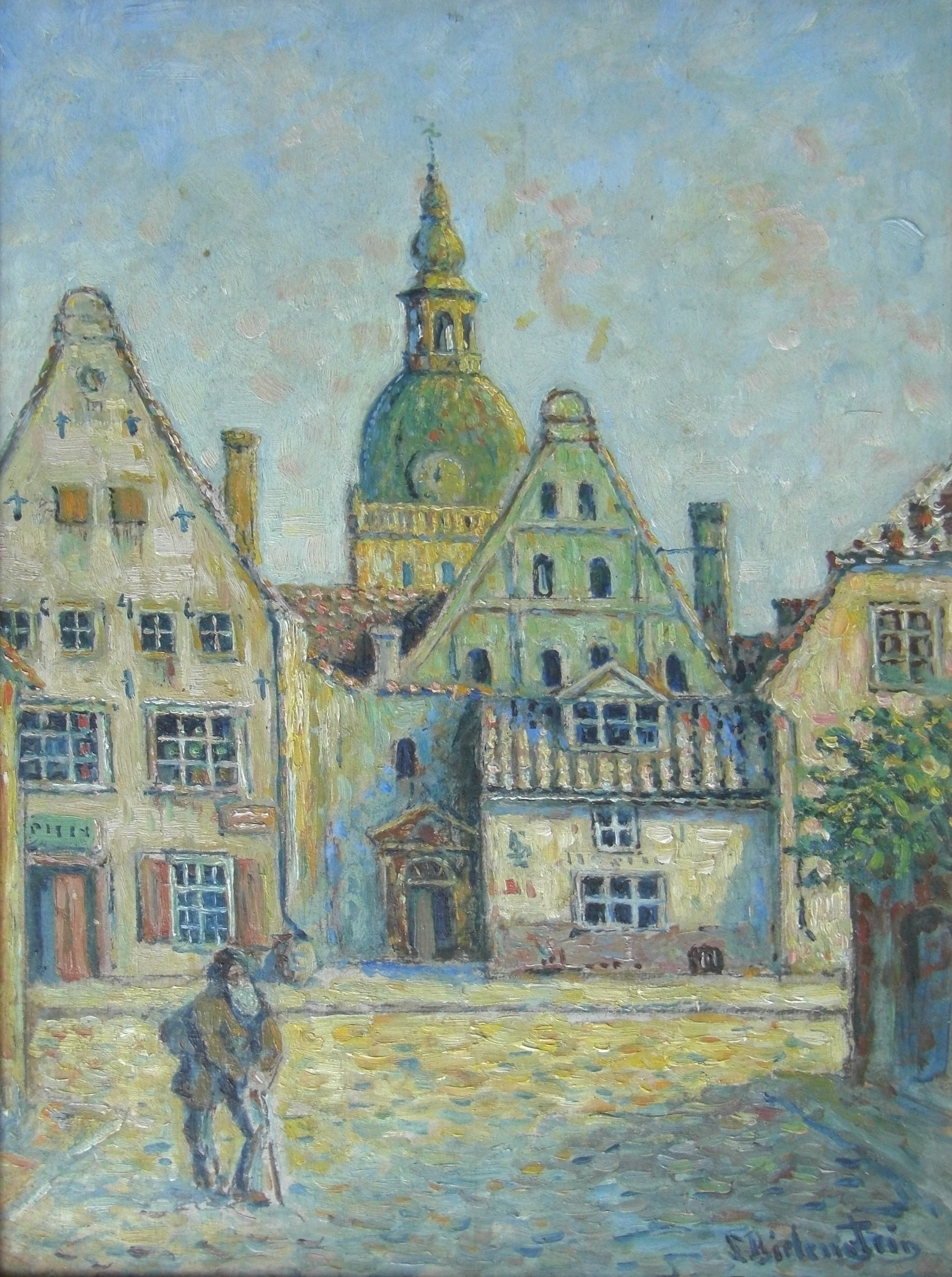 Siegfried Bielenstein: "Three Brothers" houses, Riga. Oil on canvas, 30 x 22 cm (Private collection)